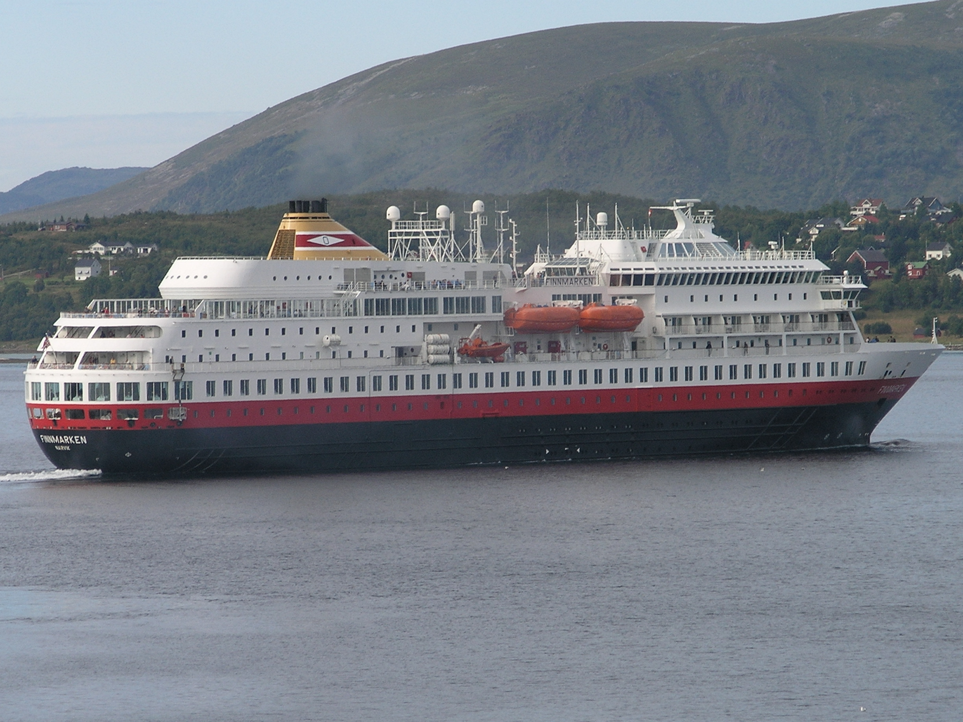 Ferry Finnmarken